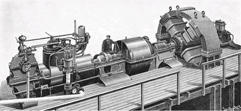 Engraving of Parson's first 1 megawatt "turbogenerator" alternator driven by a steam turbine. It was installed at a plant in Elberfeld, Germany.